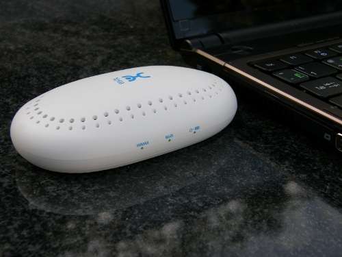 Yota egg